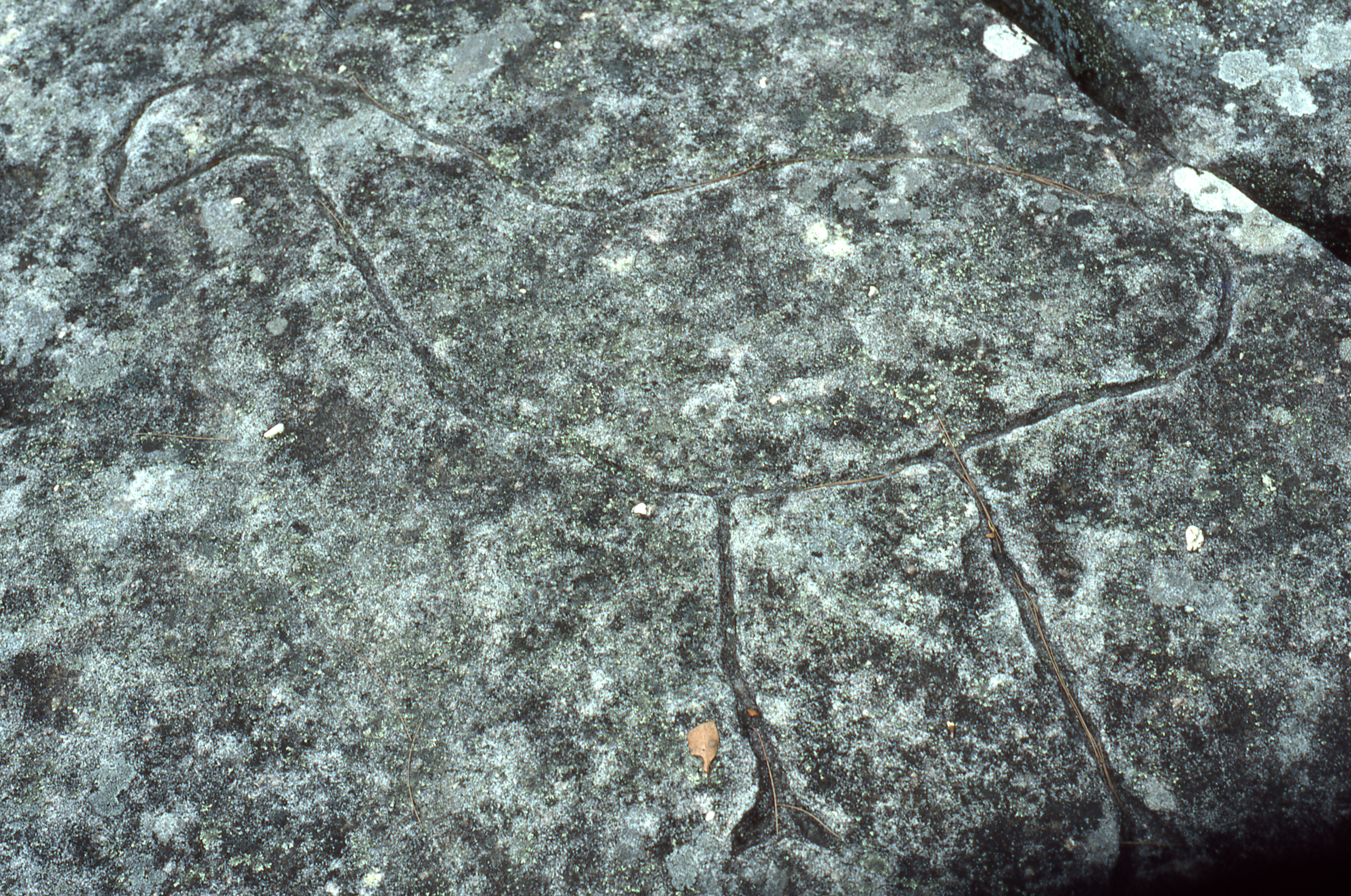 Aboriginal carving of emu, Slade Lookout, Ku-ring-gai Chase NP, NSW, Australia (Kodachrome slide scanned at 6400)